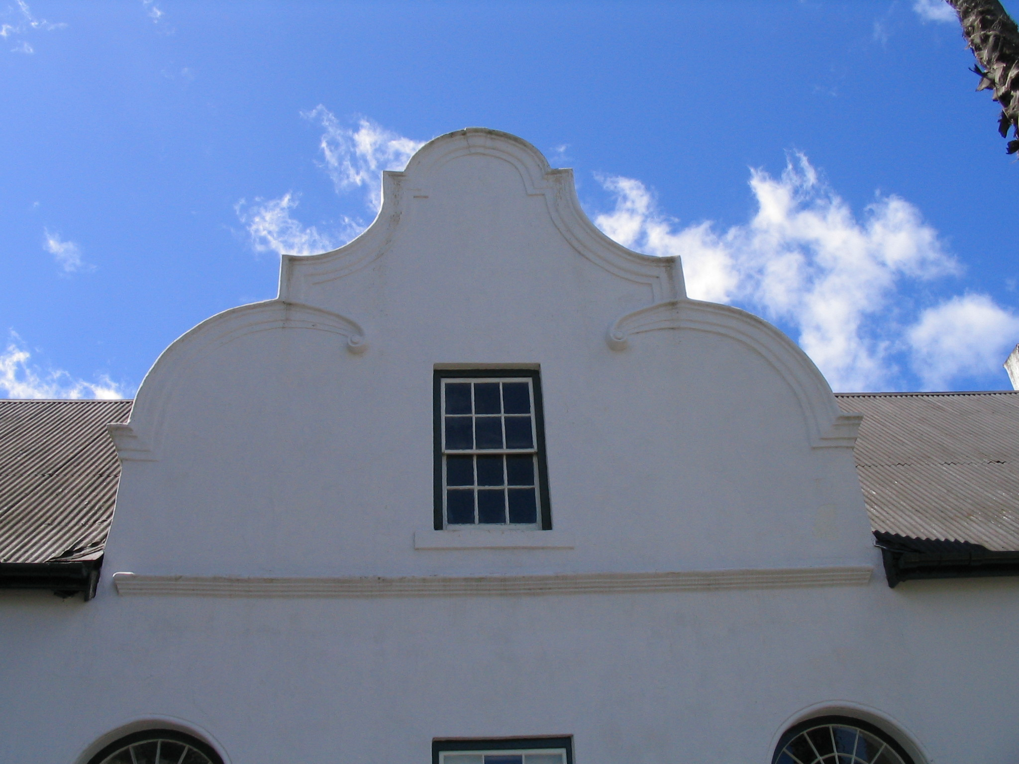 Morkel House, 4–6 Ryneveld Street, Stellenbosch This media shows a South African Protected Site with SAHRA file reference 9/2/084/0158.